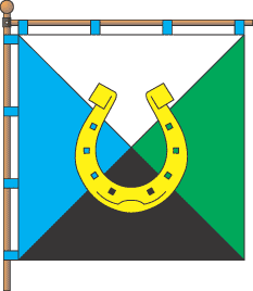 Flag of the city of Boryslav, Ukraine (1996)